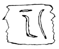 Drawing of parietal plicae of Gudeodiscus messageri.